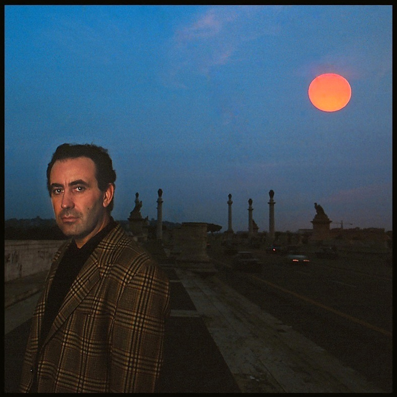 Portrait of Michele Santoro - Augusto De Luca